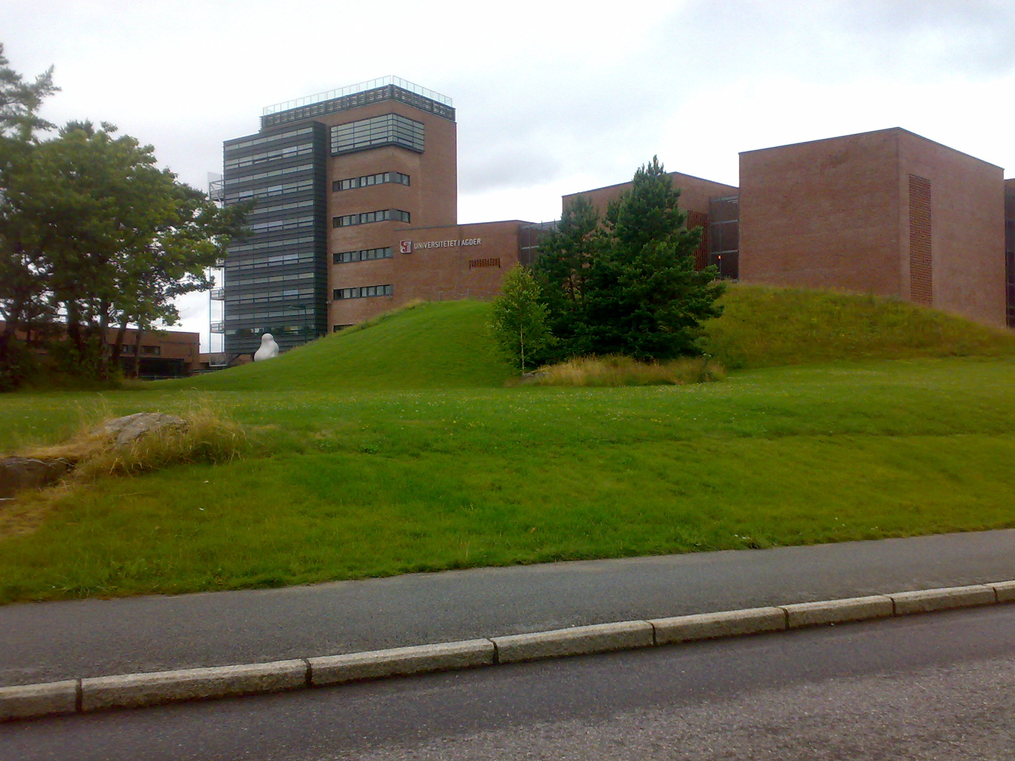 University of Agder, Kristiansand, Norway